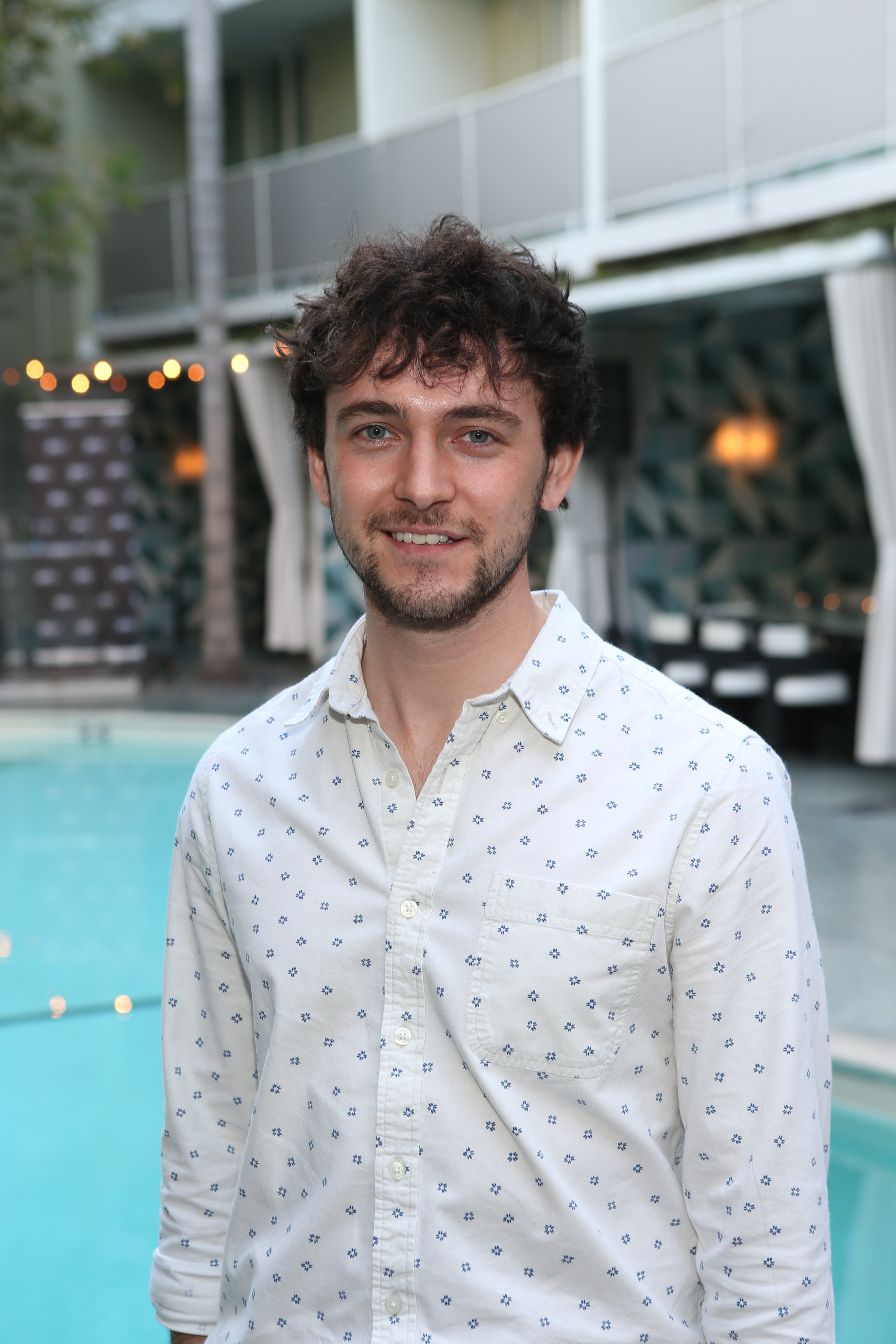 George Blagden at a reception on March 19, 2014 in Beverly Hills, the Canadian Film Centre